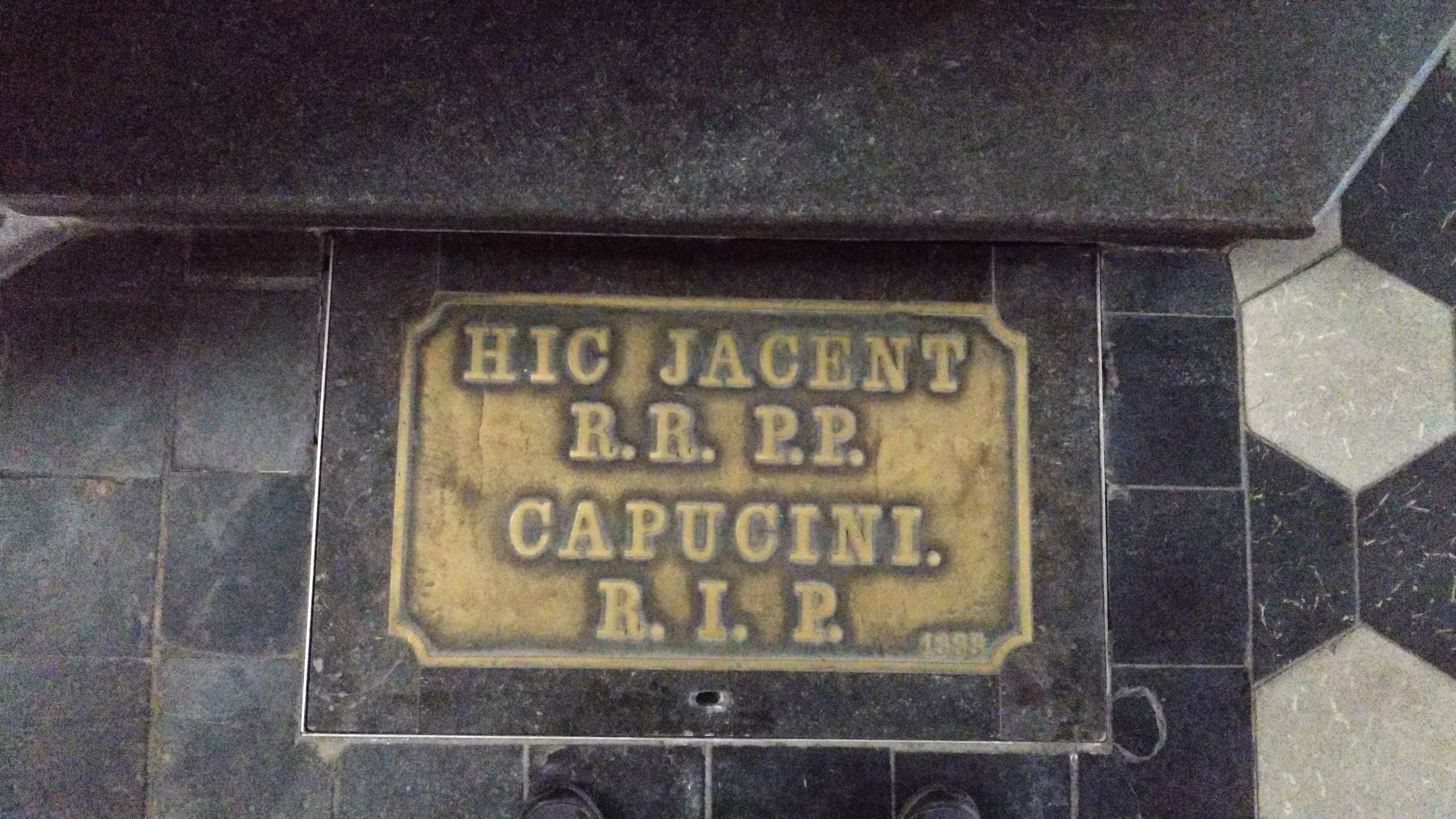 Explanations and history, see category.